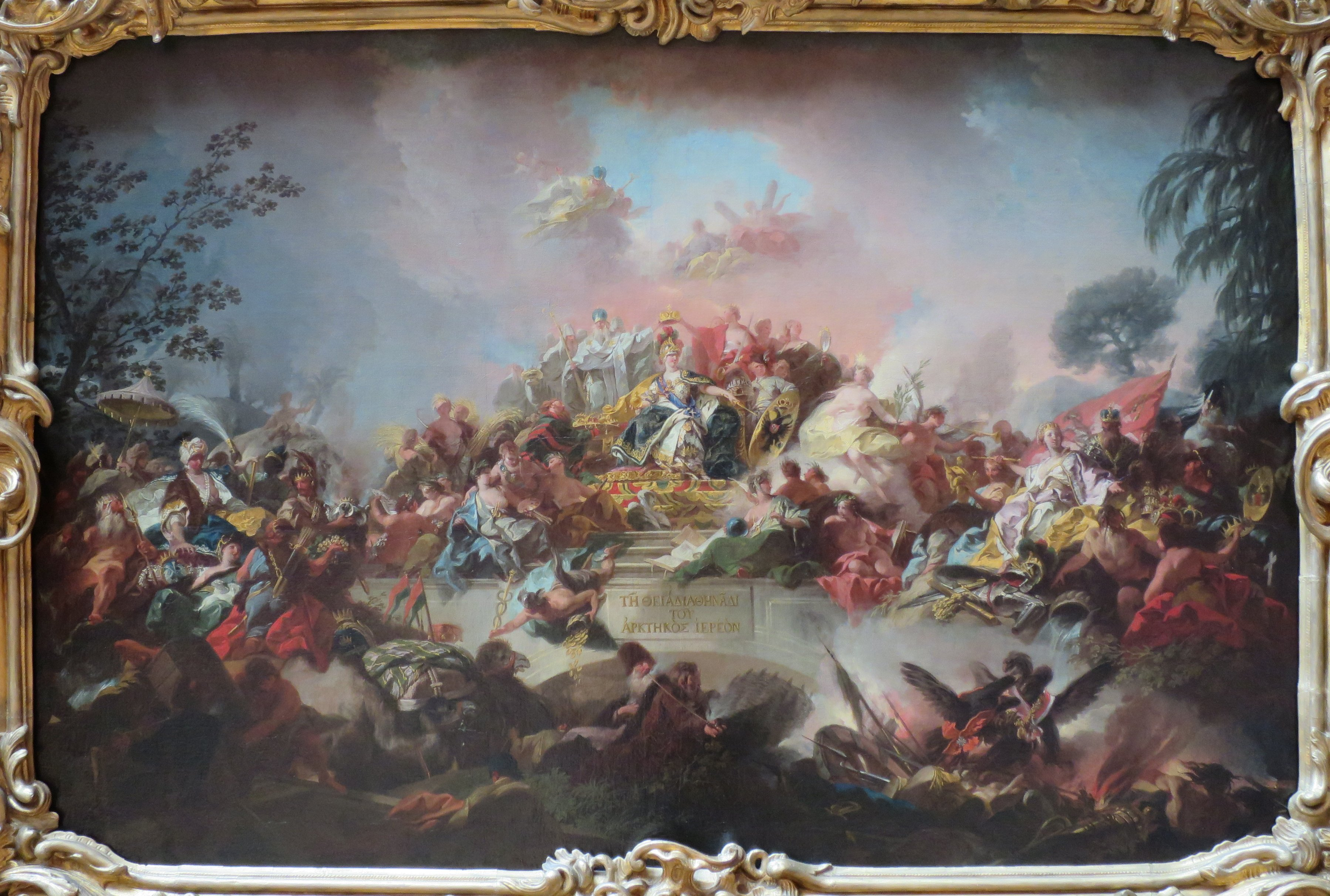 'Apotheosis of the Reign of Catherine the Great' by Gregorio Guglielmi, 1767, The Hermitage